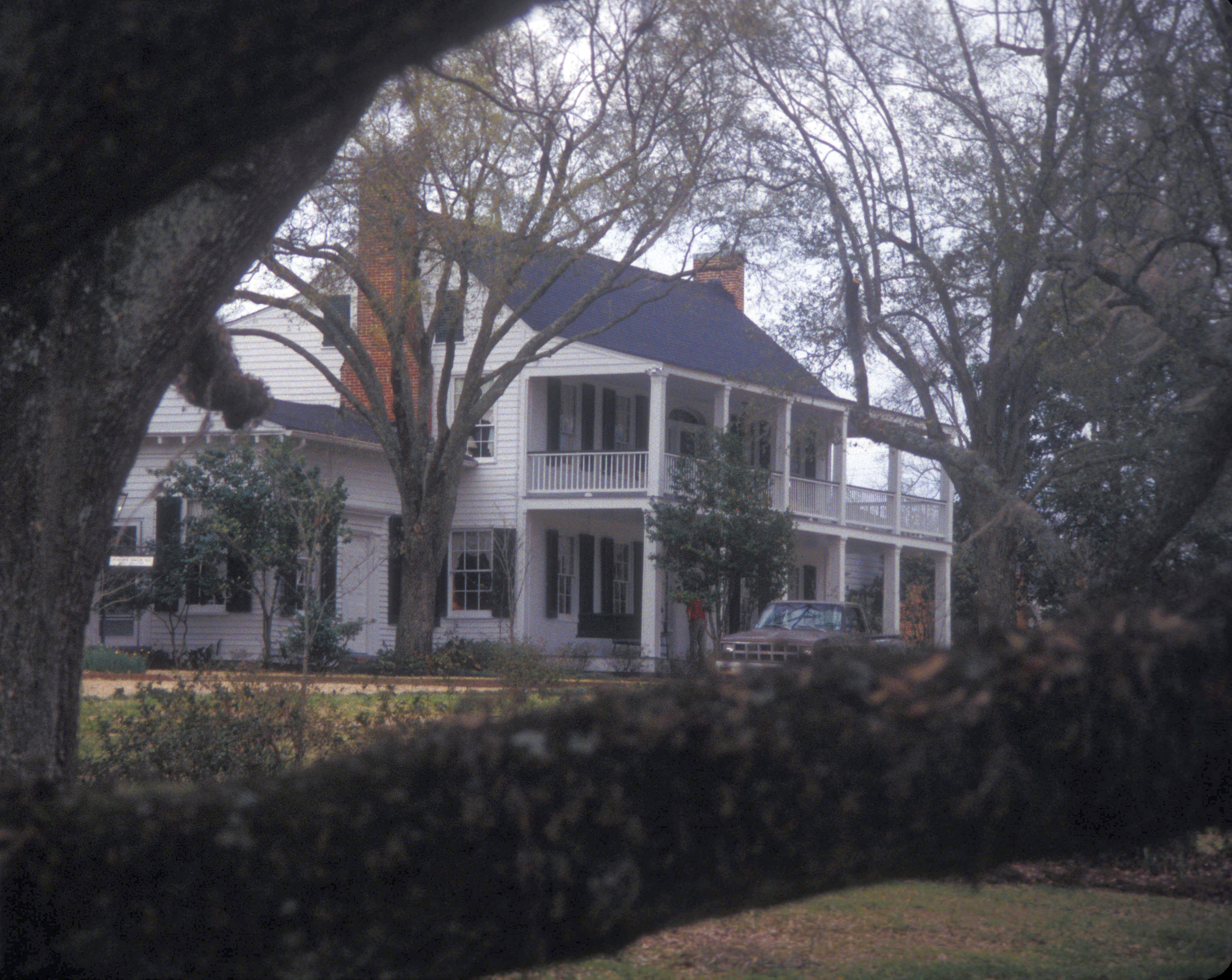 MOUNT REPOSE PLANTATION; 1824 SOUTHERN PLANTER STYLE